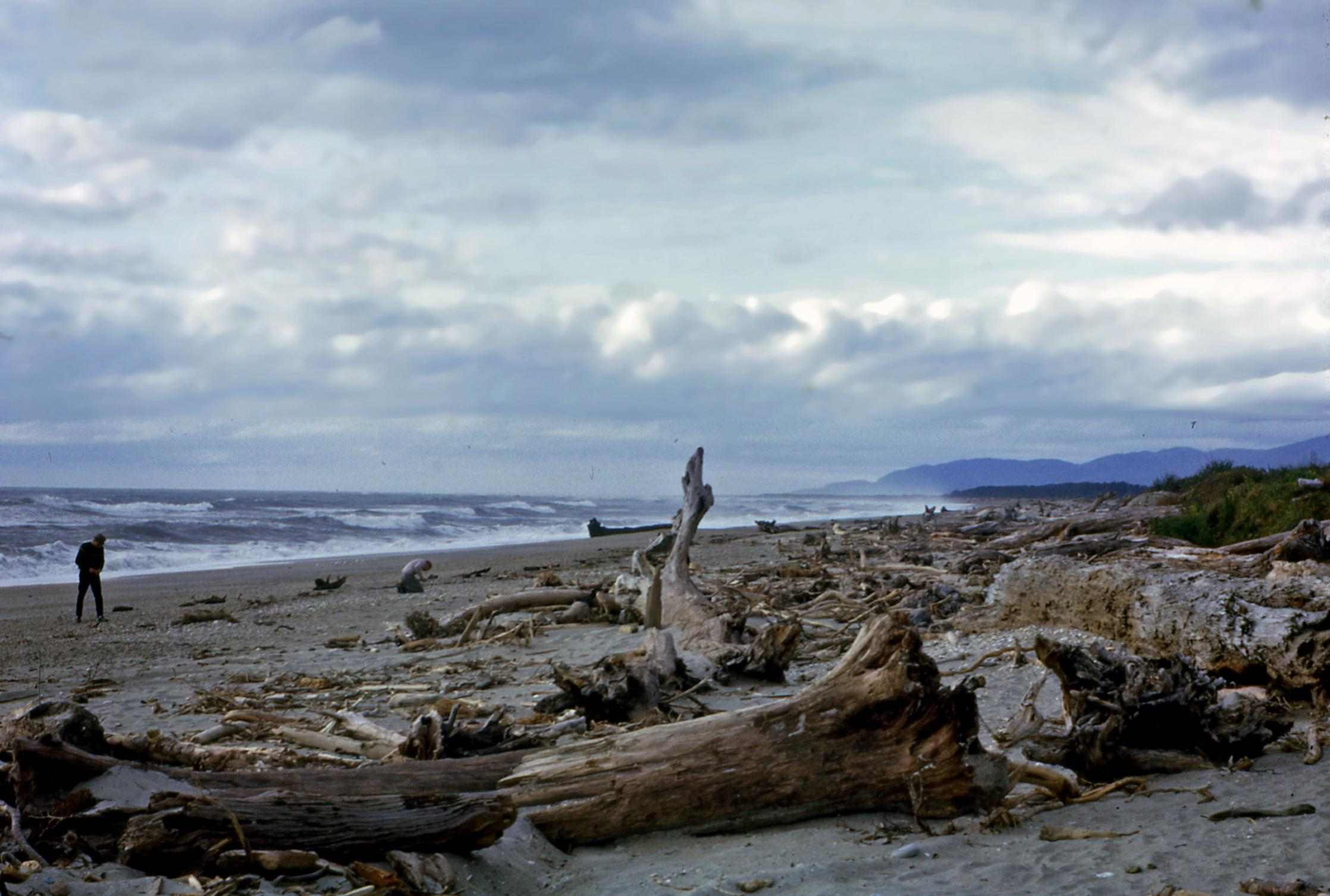 Haast Beach, West Coast, New Zealand. Photo taken in 1968.